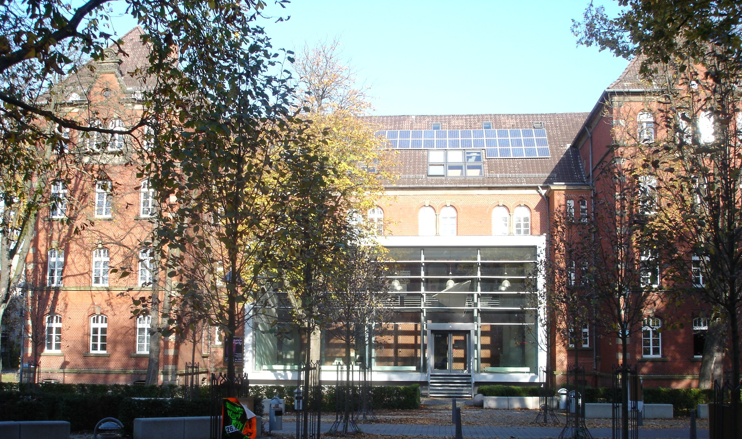 Leonardo-Campus in Muenster (Westphalia), Germany (Architectures-building, main-entrance)